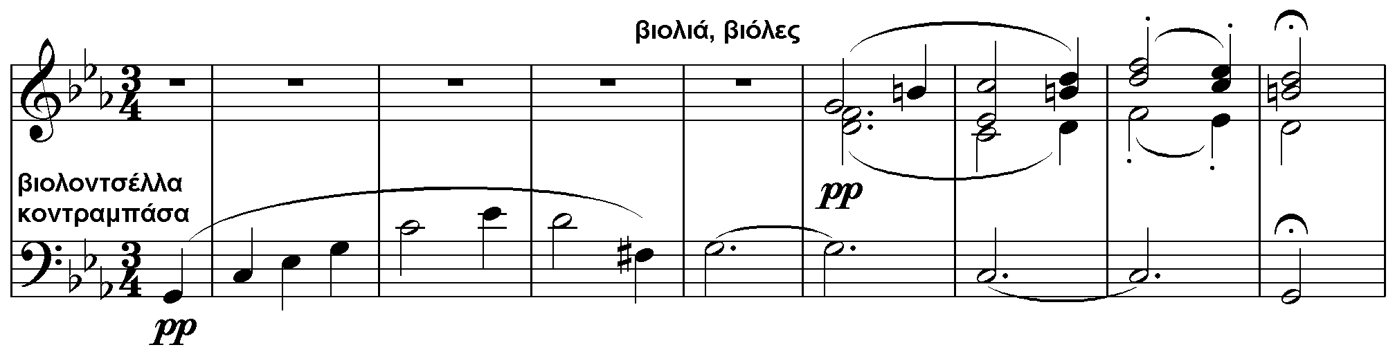 Beethoven, Symphony No. 5